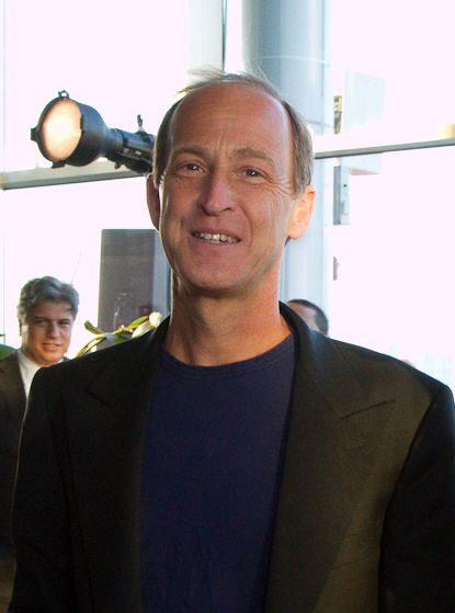 Photo Credit: Grace Villamil